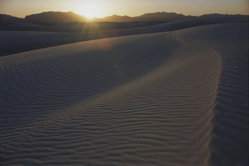 White Sands National Park, New Mexico, USA, sunset over the San Andres mountains.